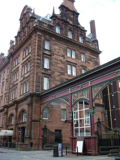 Caledonian Hotel from Rutland Street Back of the Caledonian Hotel which served the clientele of the Caledonian Station at the end of the London-Carlisle-Edinburgh line. The station was opened in 1870 and demolished in 1965. The wrought-iron archway was a side entrance from Rutland Street.